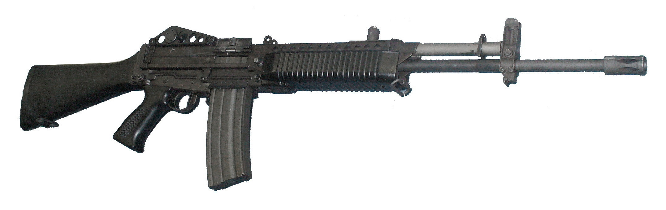 Stoner 63, American Light Machine Gun